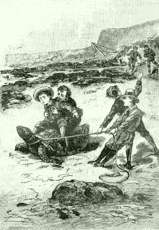 An illustration from Jules Verne's novel "Two Years' Vacation" (1886-87) drawn by Léon Benett.